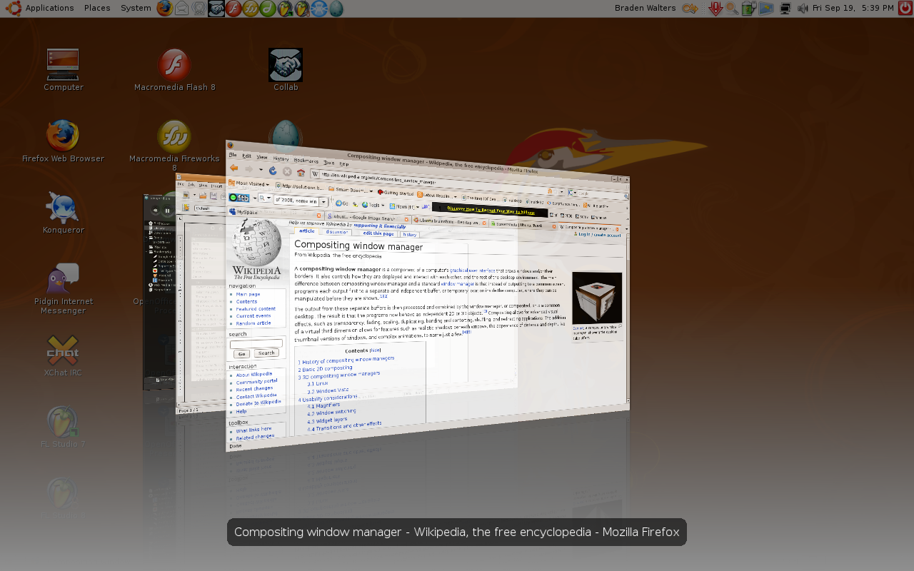 Example of the Compiz-Fusion Shift Switcher in Flip mode.